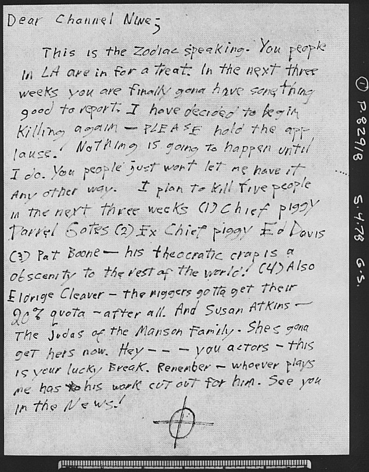 Letter to Channel 9 purporting to be from the Zodiac Killer